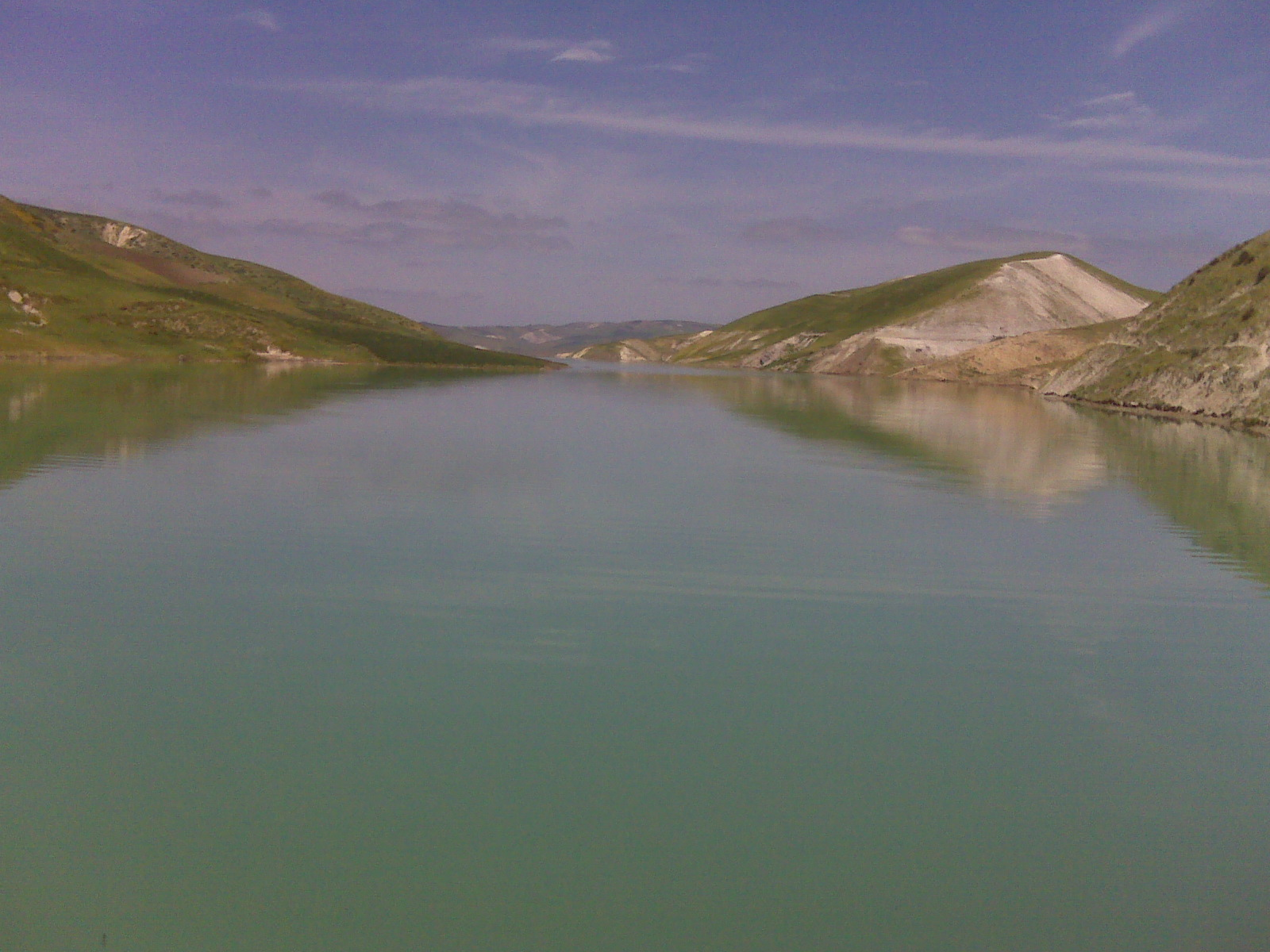 Hassan II Dam